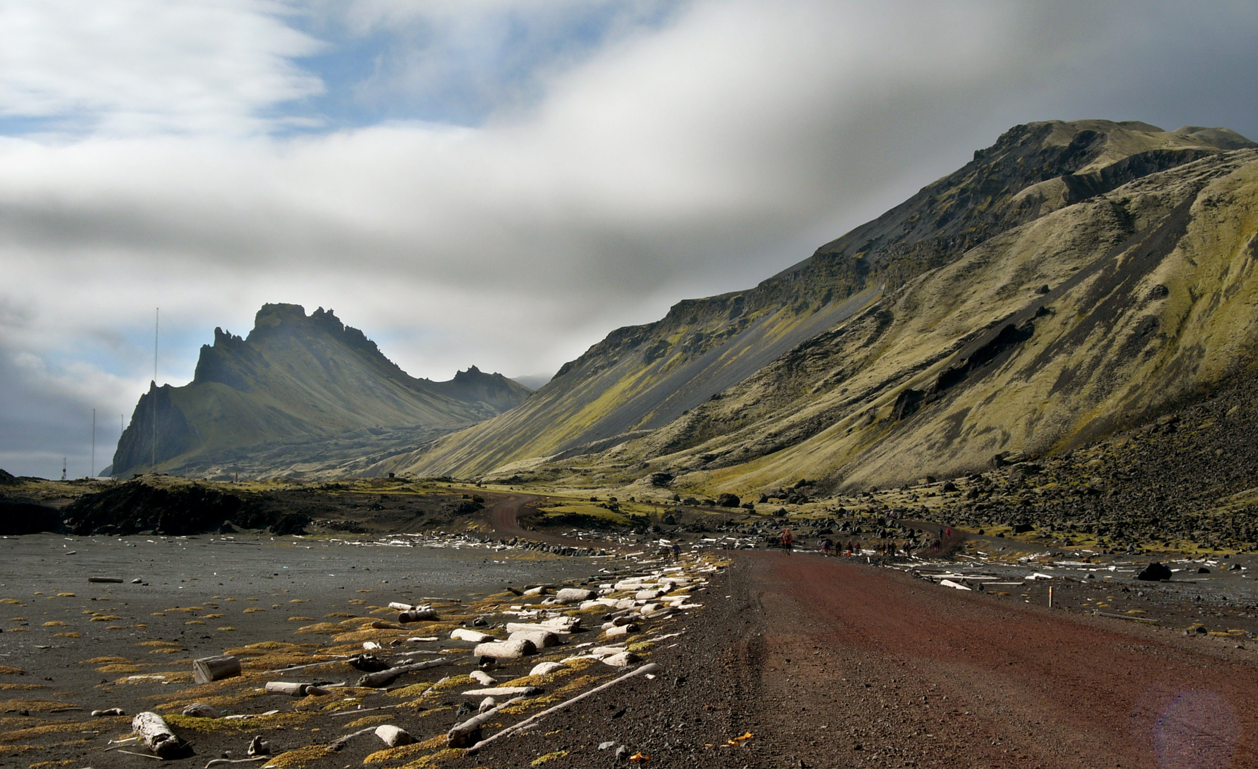 Jan Mayen - road along the westcoast, about 500 m off the station. The wood comes from Siberia, transported by sea ice via the Transpolar drift through the Arctic Ocean and finaly with the East Greenland current southward until stranded ashore the island.